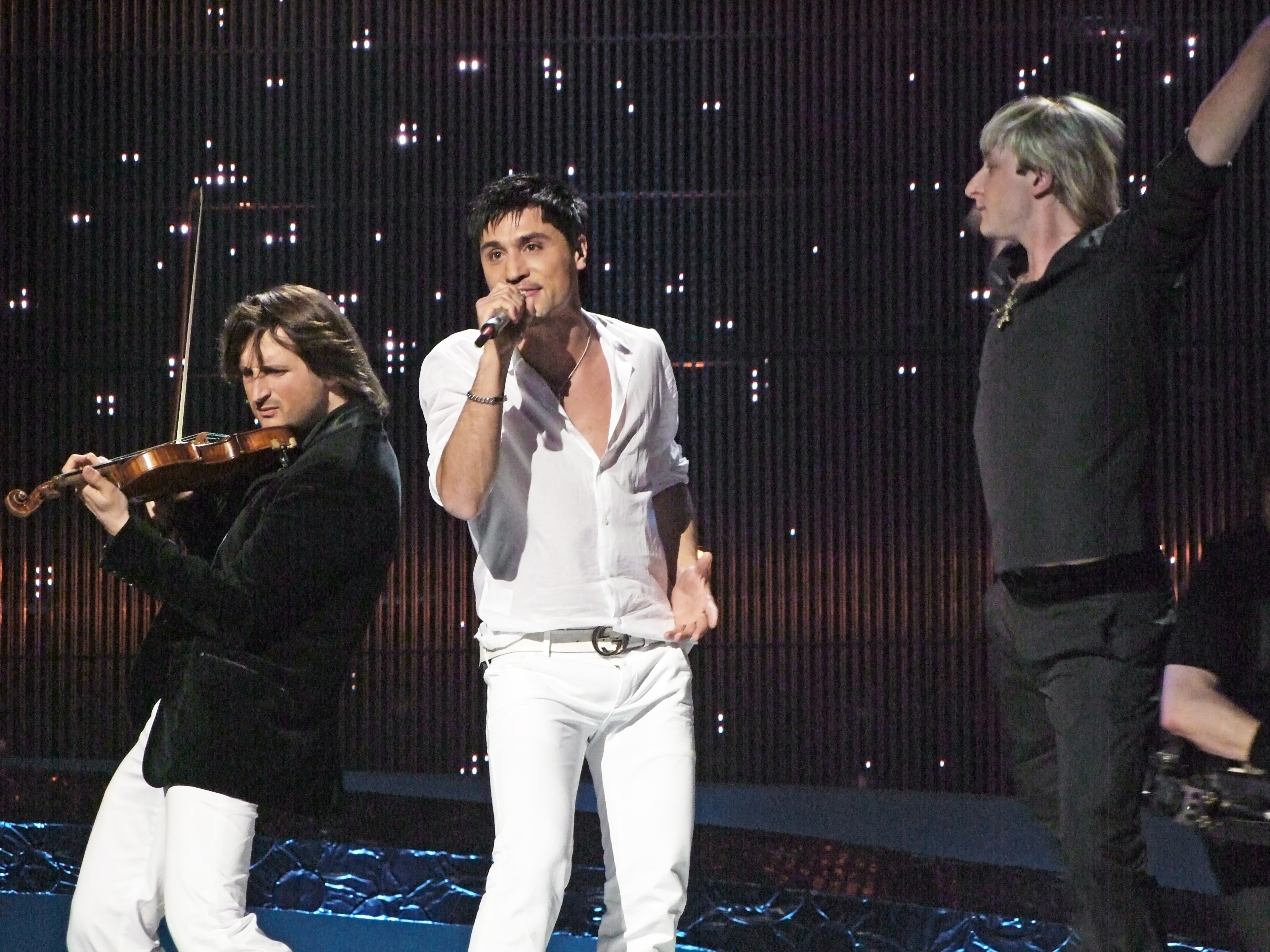 Eurovision Song Contest 2008, 1st semifinalRussia: Dima Bilan (with Edvin Marton and Evgeni Plushenko) - Believe